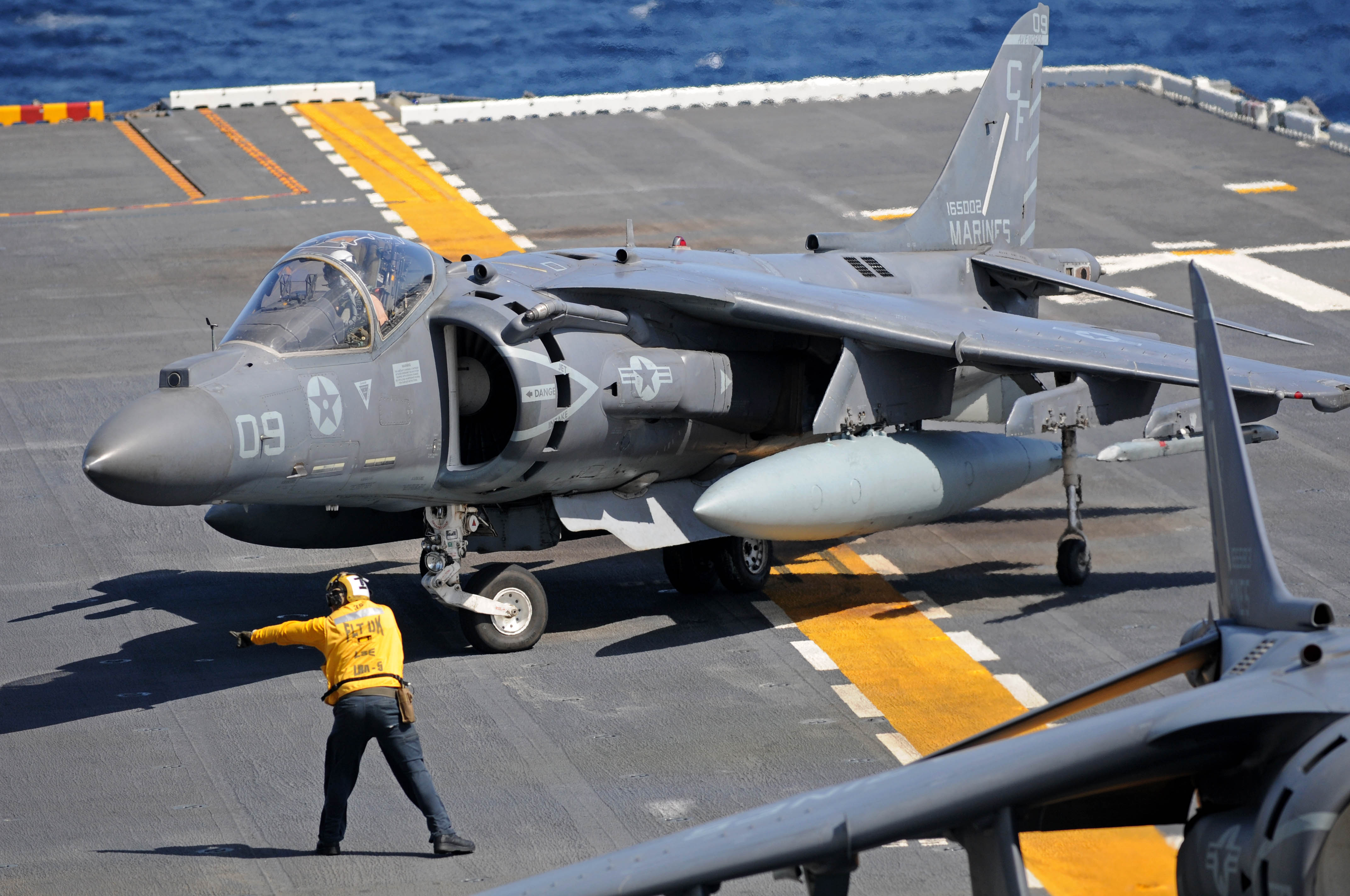 A U.S. Navy sailor directs a McDonnell Douglas AV-8B(+)-21-MC Harrier II (BuNo 165002) from Marine Attack Squadron (VMA) 211 "Wake Island Avengers" during flight operations aboard the amphibious assault ship USS Peleliu (LHA-5). Peleliu was conducting flight deck certification following completion of a seven-month maintenance availability in preparation for a future deployment.